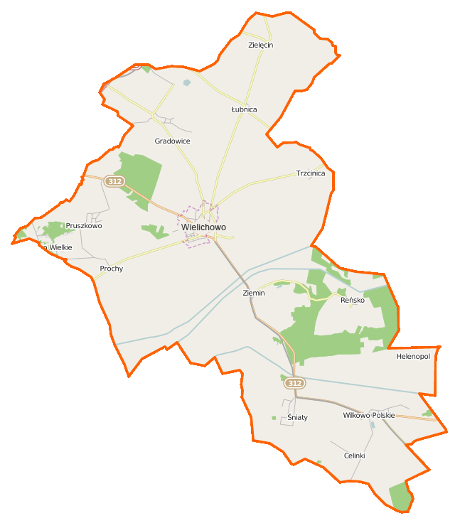 Map of Gmina Wielichowo, Poland This map of Wielichowo (gmina) was created from OpenStreetMap project data, collected by the community. This map may be incomplete, and may contain errors. Don't rely solely on it for navigation. Border coordinates52.185316.2543←↕→16.476552.0285